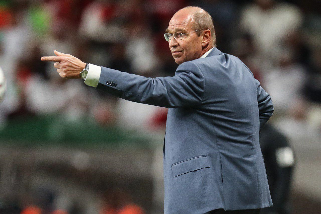 Iran-Oman Round of 16, 2019 AFC Asian Cup